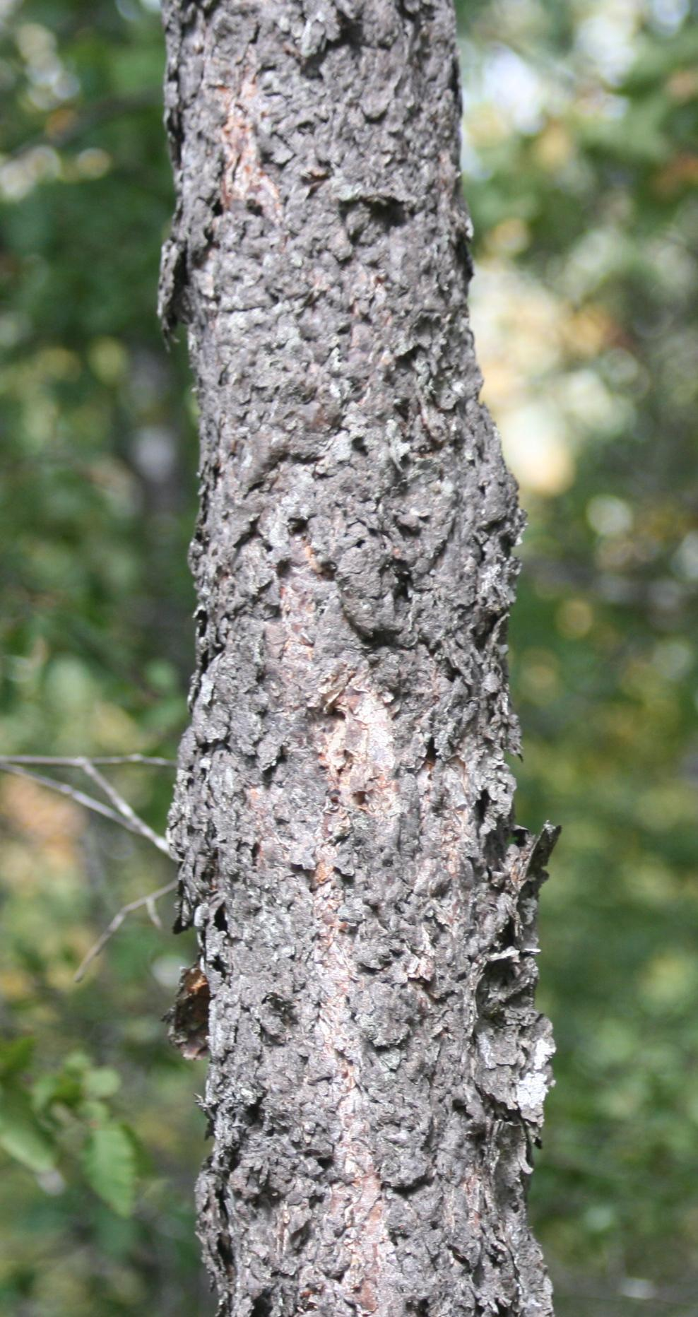 Corteza de Hualo (Nothofagus glauca)